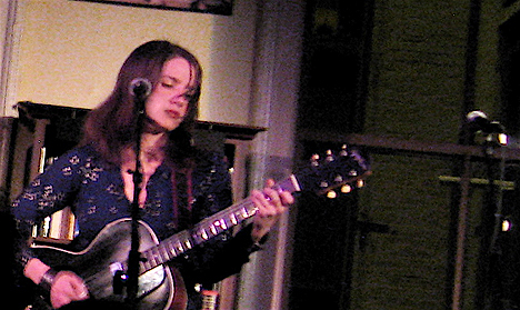 Jolie Holland @ Housingworks NYC